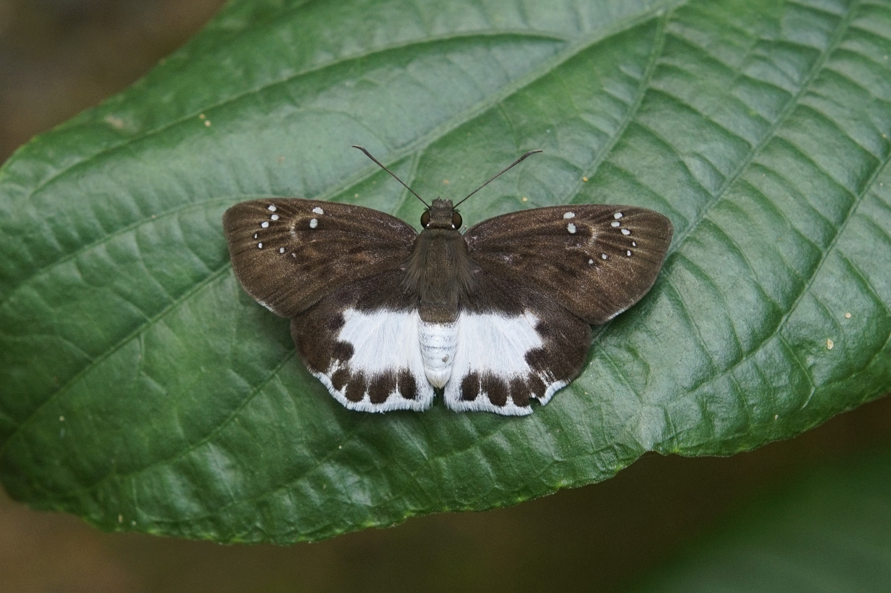 Tagiades litigiosa